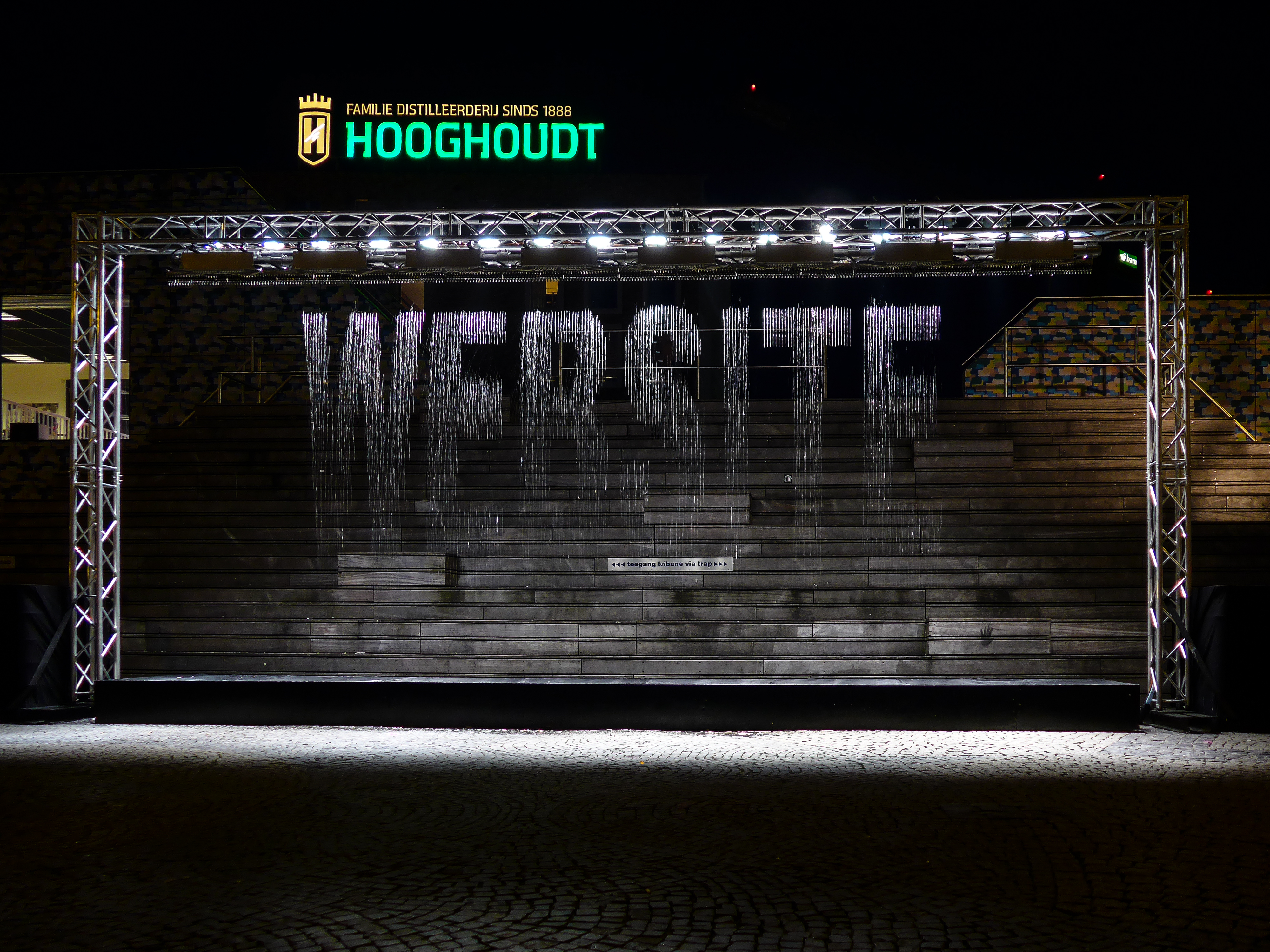 The installation bit.fall by the German artist Julius Popp at the Grote Markt in the Dutch city of Groningen.